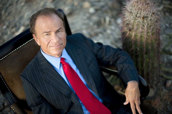 Picture of Grant Woods at Camelback Mountain, taken by Robbie Quinn. Can be found at This Page.